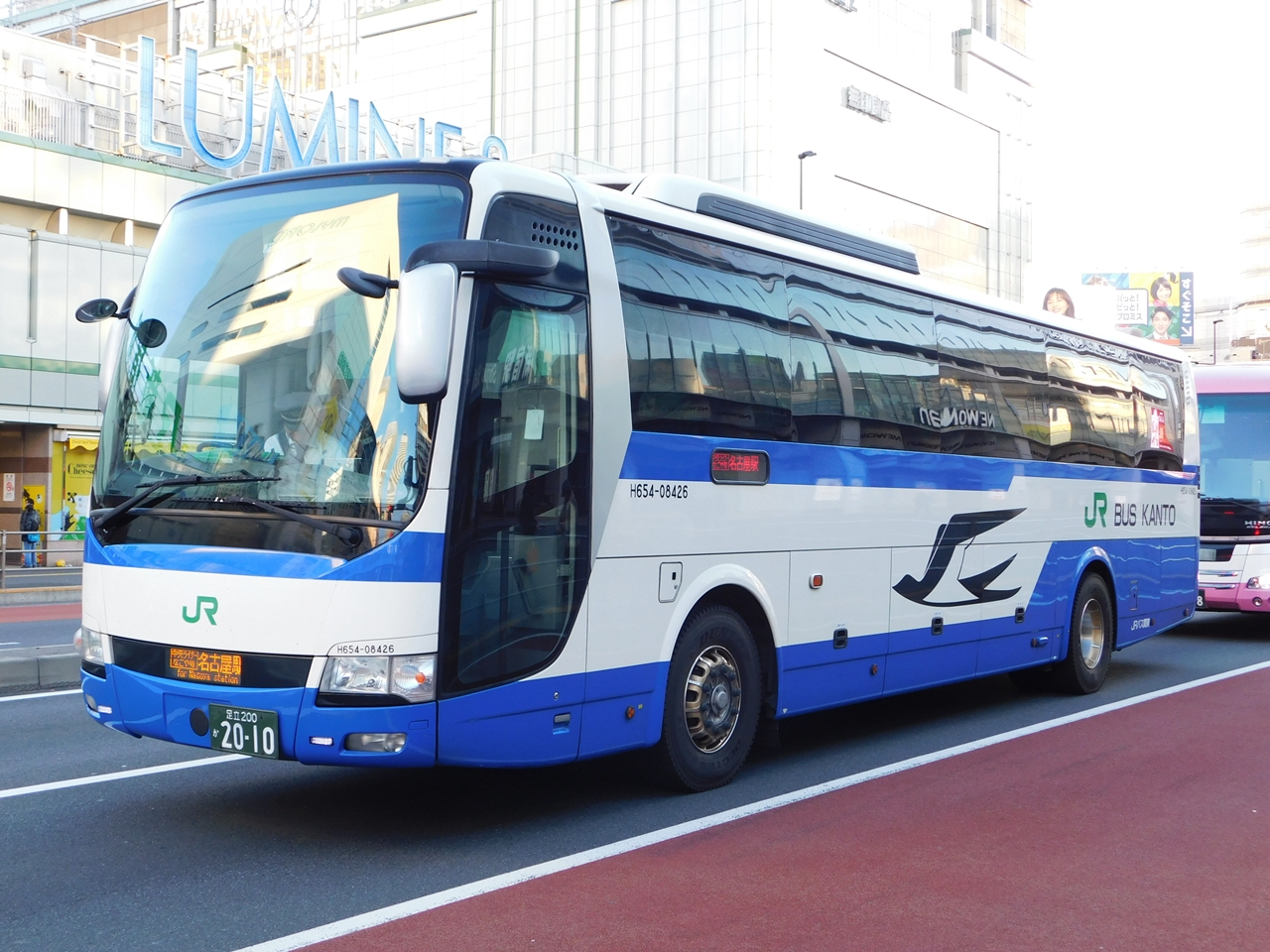 JR Bus Kanto Mitsubishi Fuso Aero Ace on highwaybus "Chuo-liner-Nagoya"